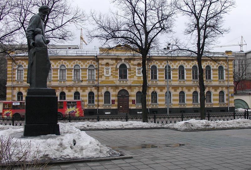 Devichye Pole, Moscow, Ancient Archive ( TsGADA, ЦГАДА )